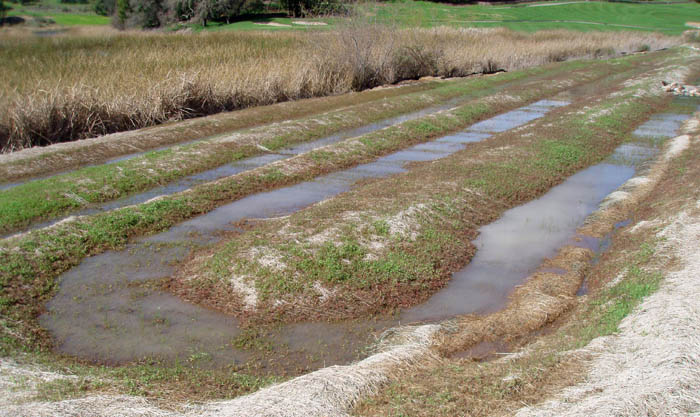 Sedimentation ponds on south side of Fountaingrove Lake, Sonoma County Calif, USA